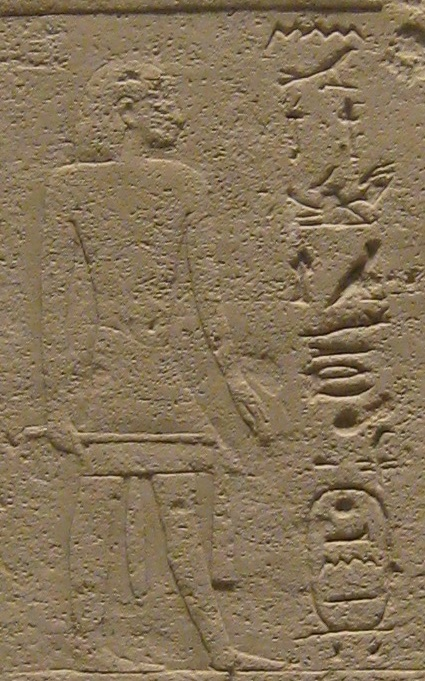 The high priest of Ptah Sokaremsaf under the reign of Seti I - From the Ankhefensekhmet stela - 22nd dynasty of Egypt